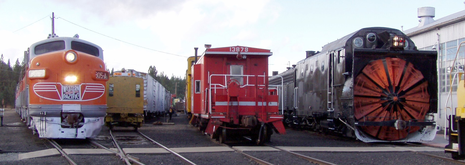 A view of the Western Pacific Railroad Museum in 2006.